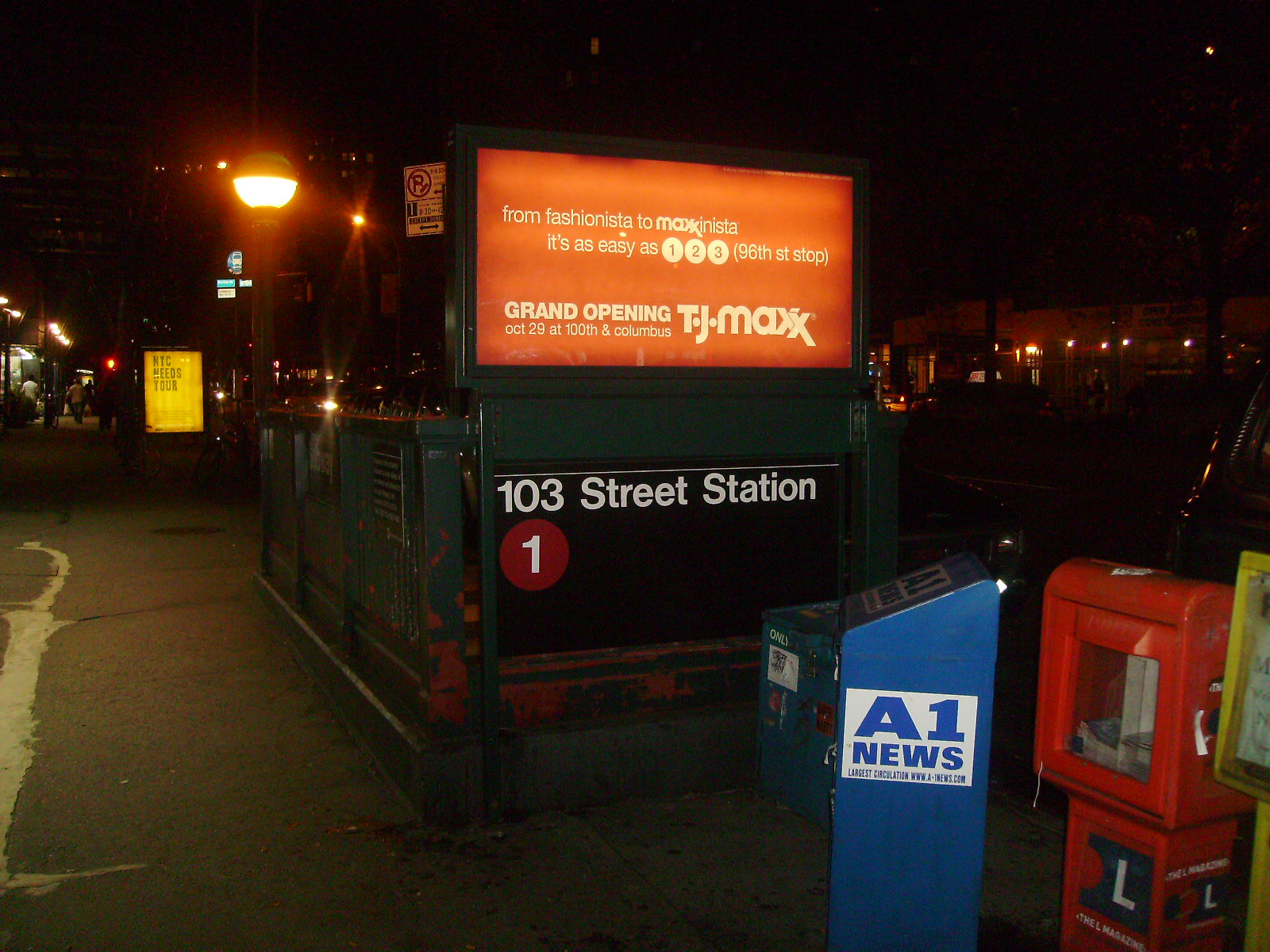 A street level view of the northern entrance to the 103rd Street Broadway - Seventh Avenue Line (1 Train) station in the Upper West Side of New York on Broadway.